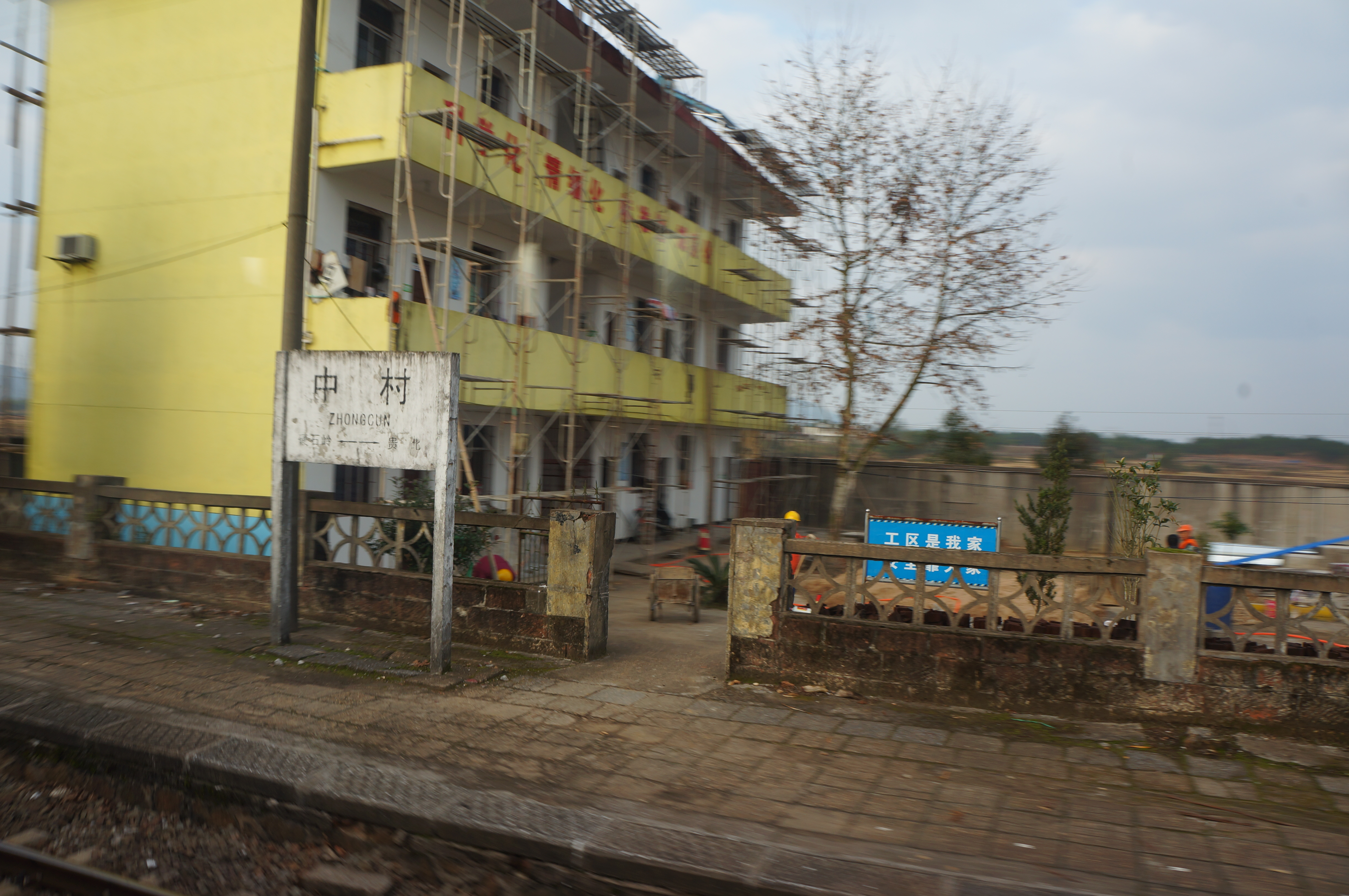 201612 Nameboard of Zhongcun Station